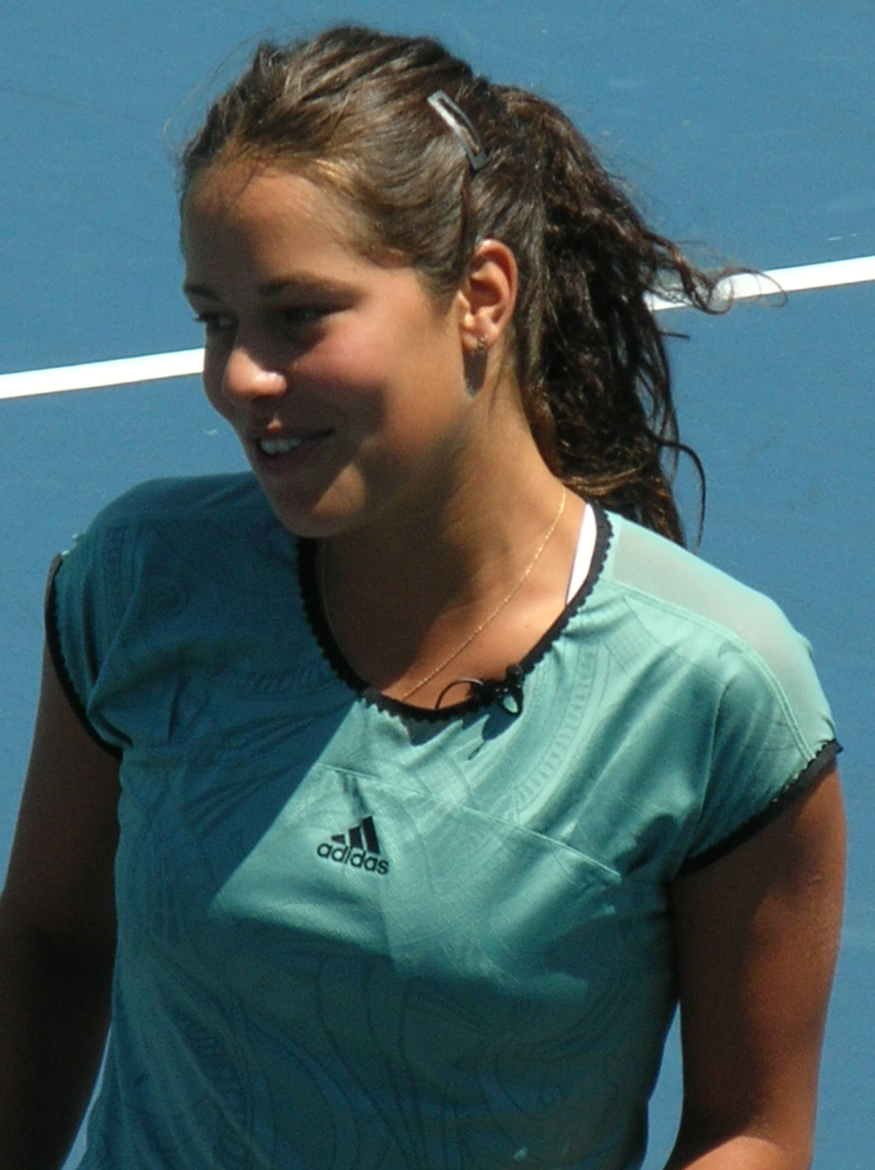 Ana Ivanović participating in a media event at the Bank of the West Classic at Stanford.